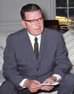 President John F. Kennedy with Governor Richard J. Hughes of New Jersey